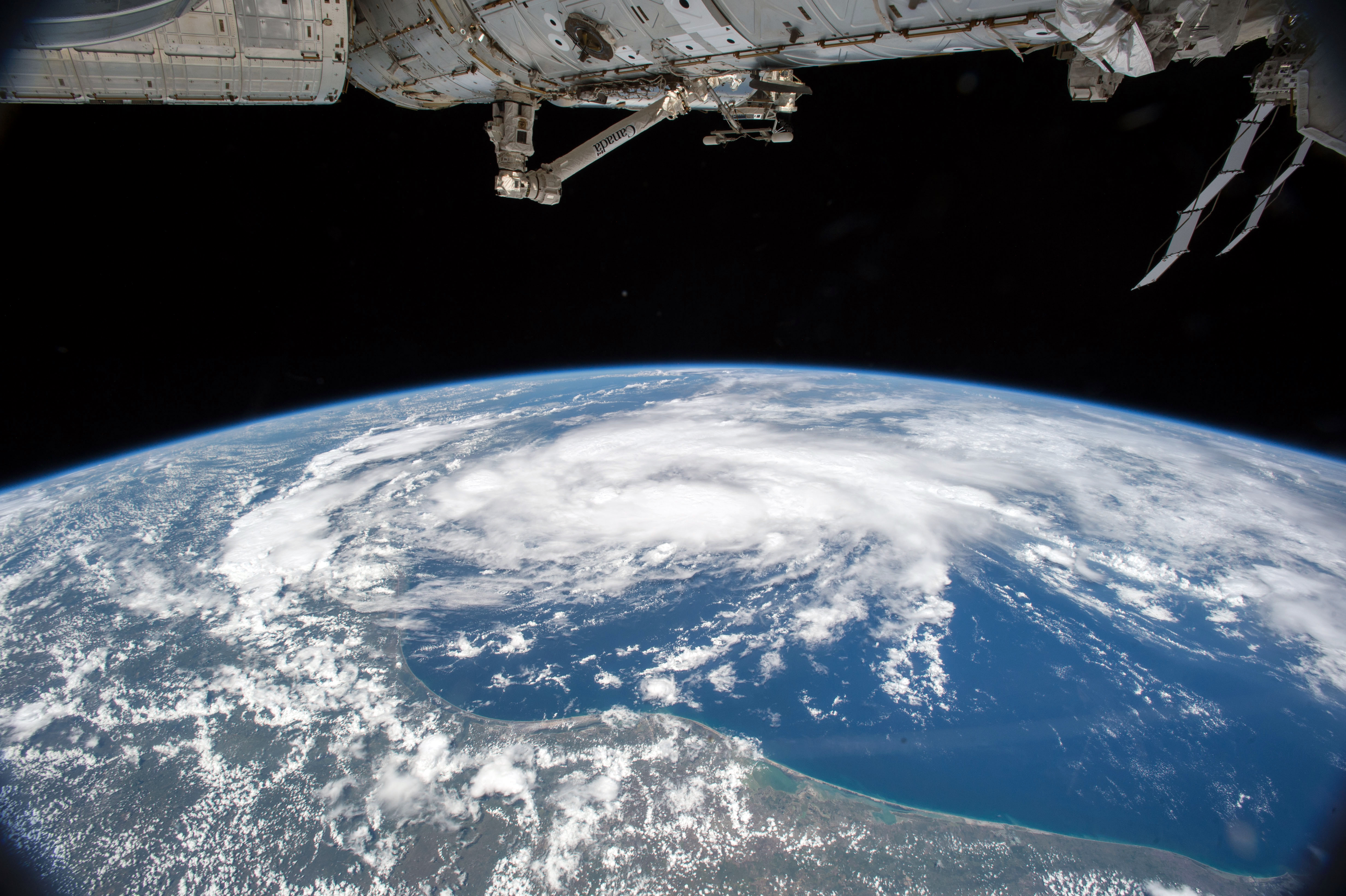 NASA astronaut Scott Kelly (@StationCDRKelly), currently on a one-year mission to the International Space Station, took this photograph of Tropical Storm Bill in the Gulf of Mexico as it approached the coast of Texas, on June 15, 2015. Kelly wrote, "Concerned for all in its path including family, friends & colleagues."